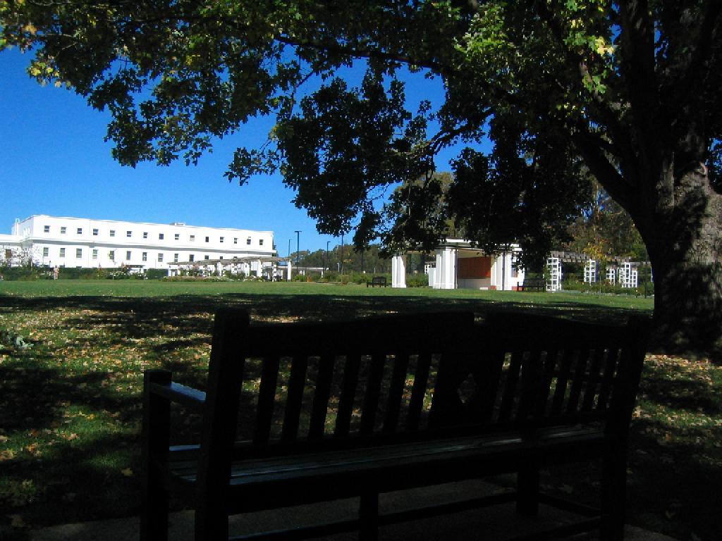 A view of the Old Parliament House Gardens